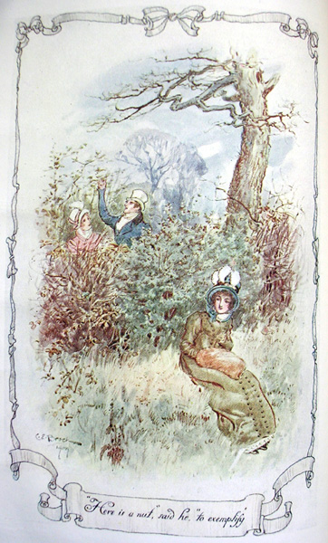 Persuasion, ch 10: Here is a nut, said he, to exemplify.